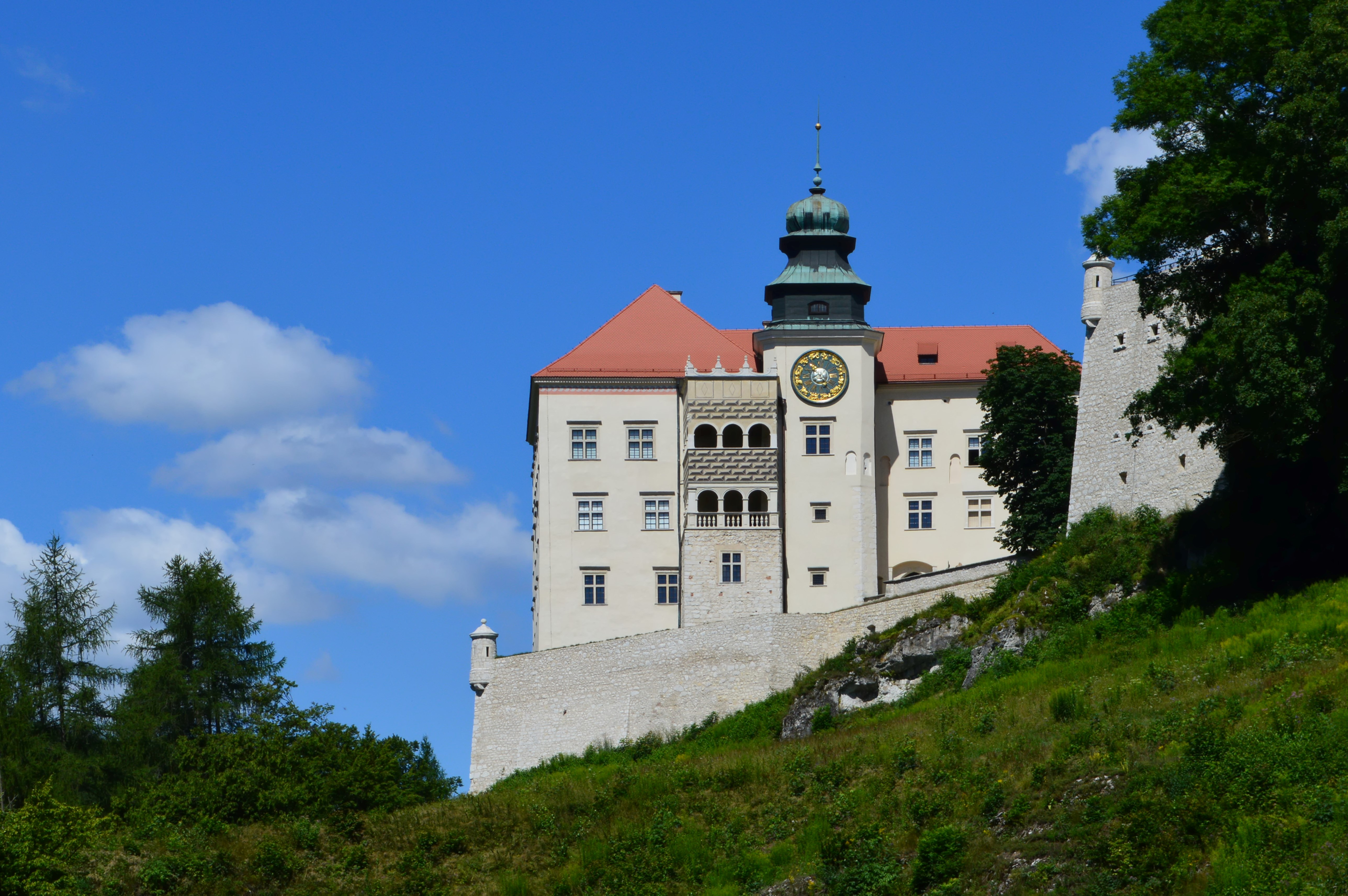 The “Trail of the Eagles' Nests” (Szlak Orlich Gniazd) of south-western Poland, is a marked trail, named after a chain of 25 medieval castles which the trail passes by, between Częstochowa and Kraków. The Trail of the Eagles' Nests was first marked by Kazimierz Sosnowski. Since 1980, much of the area has been designated a protected area known as the Eagle Nests Landscape Park (Park Krajobrazowy Orlich Gniazd). The castles, including Pieskowa Skała, Ogrodzieniec, Mirów, Bobolice Castle date mostly from the fourteenth century, and were constructed by the order of the Polish King Kazimierz the Great. They have been named the "Eagles' Nests", as most of them are located on large, tall rocks of the Polish Jura Chain featuring many limestone cliffs, monadnocks and valleys below. They were built along the fourteenth century border of Lesser Poland with the province of Silesia, which at that time belonged to the Kingdom of Bohemia. The Eagles' Nests castles (Orle Gniazda), many of which survived only in the form of picturesque ruins, are perched high on the tallest rocks between Częstochowa and the former Polish capital Kraków. The castles were built to protect Kraków as well as important trading routes against the foreign invaders. Later, the castles passed on into the hands of various Polish aristocratic families.The Scotch Mist Gallery contains many photographs of historic buildings, monuments and memorials of Poland.